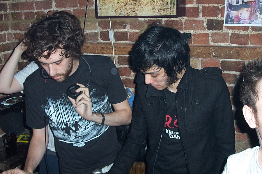 Justice